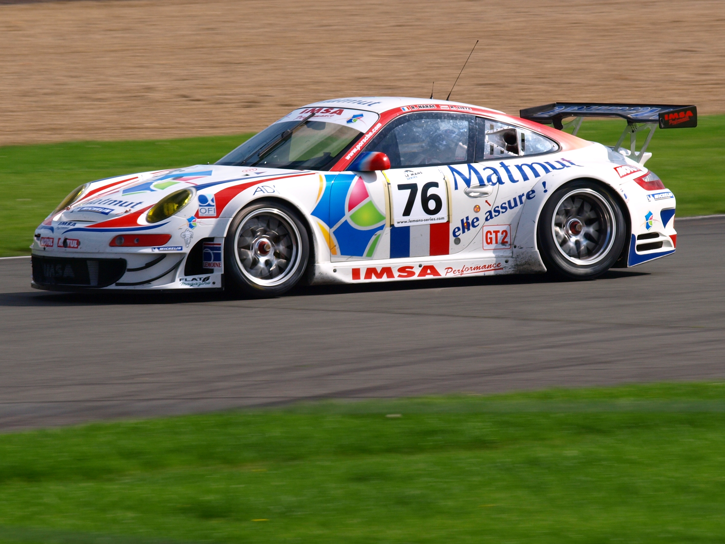 Richard Lietz driving IMSA Performance Matmut's Porsche 997 GT3-RSR at the 2008 1000km of Silverstone.